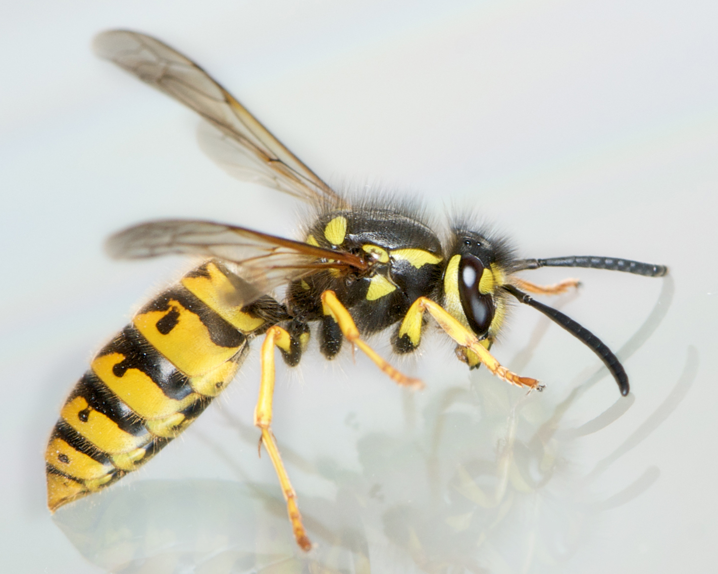 A wasp found in much of Earth's Northern Hemisphere is the German wasp (Vespula germanica). It is native to Europe, temperate Asia and northern Africa. The specimen in the picture is a fully grown worker (female) with a length (head to abdomen) of about 14 mm.